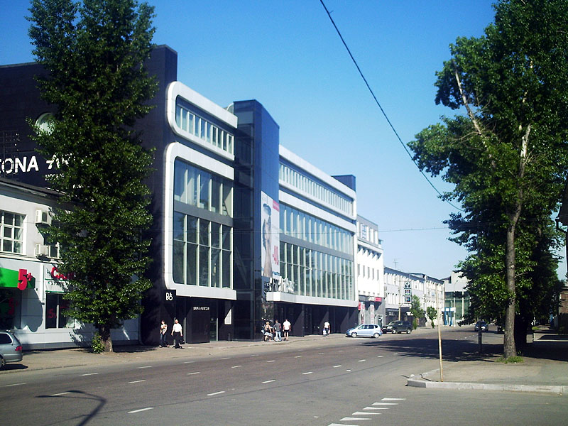 October Revolution's street in Irkutsk